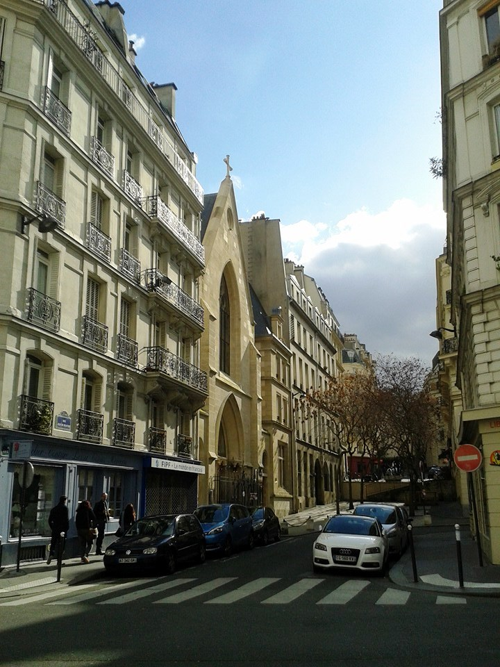 Rue Jean-de-Beauvais in a row view from the south end.